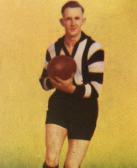 Photo of Leo Morgan in 1938